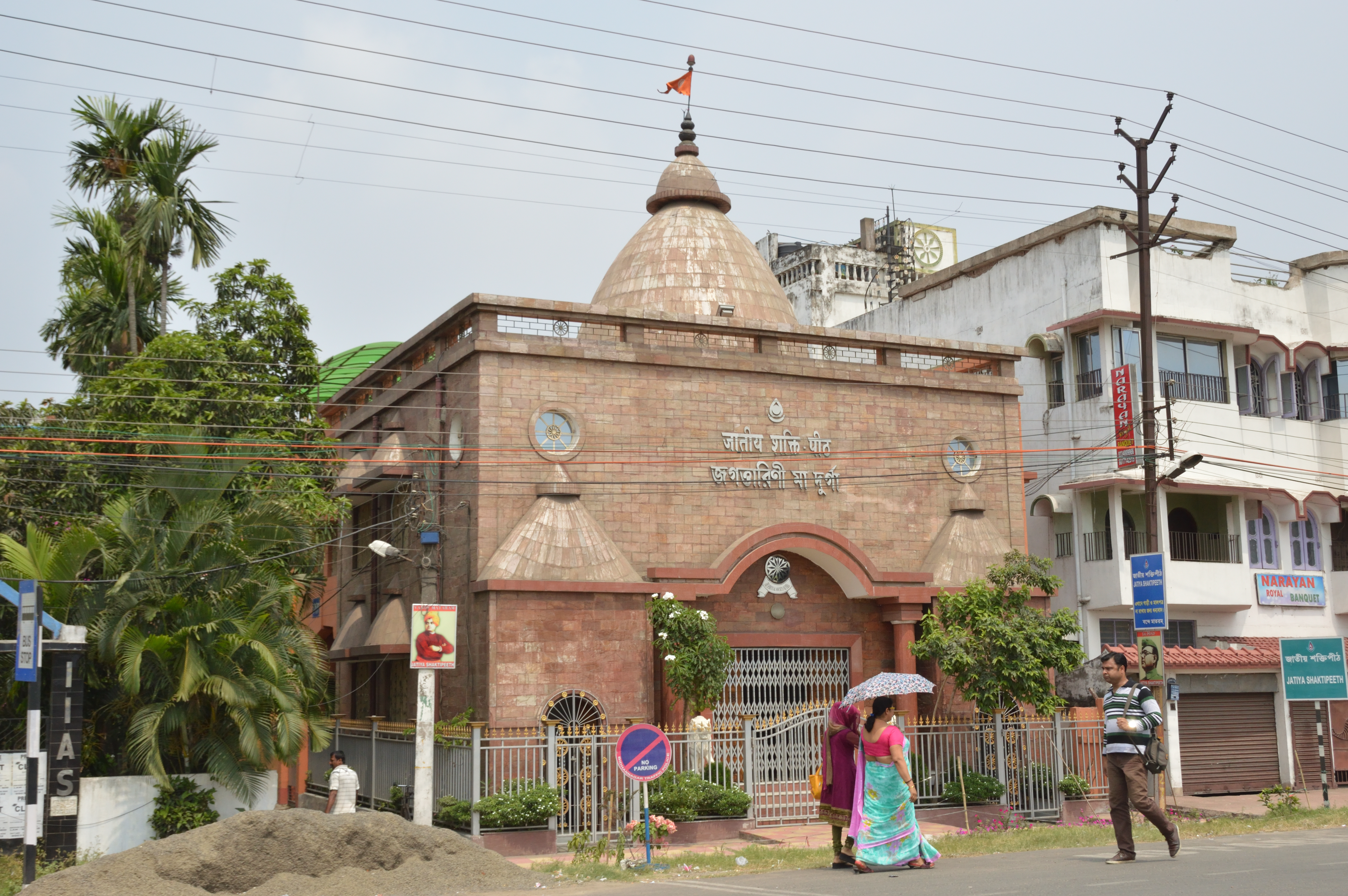 Photographed in Kolkata, West Bengal, India.